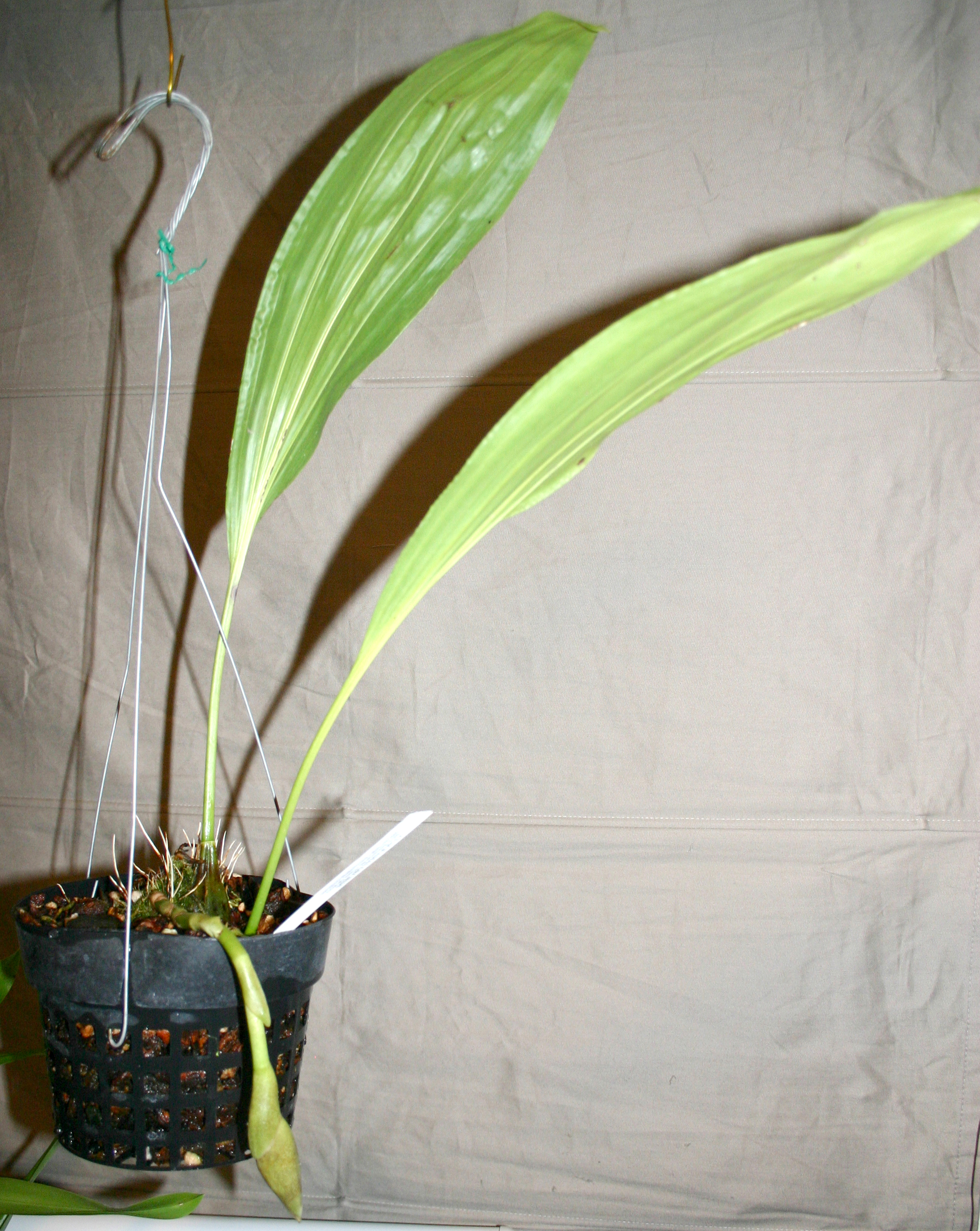 A two pseudobulb division of Stanhopea embreei in spike.